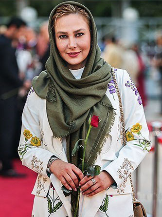 Anahita Nemati, Iranian actress at 16th Hafez Awards.